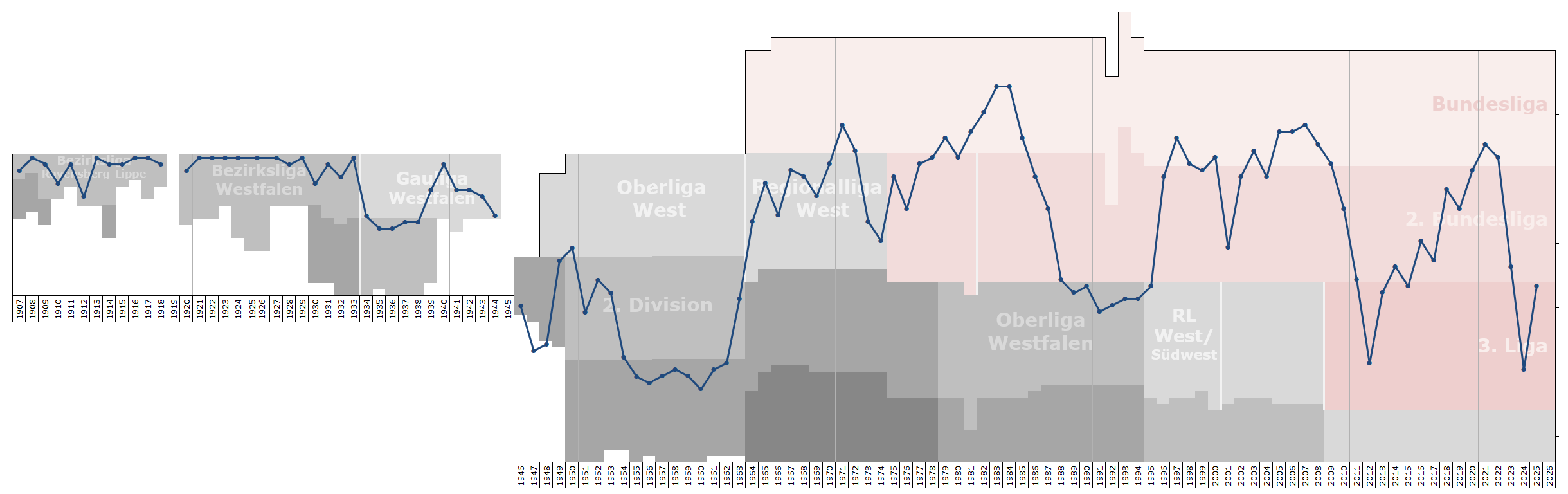 Chart of end-season table positions of Arminia Bielefeld in the football league system of Germany. Data source: RSSSF, wikipedia, f-archiv.de, fussball.de